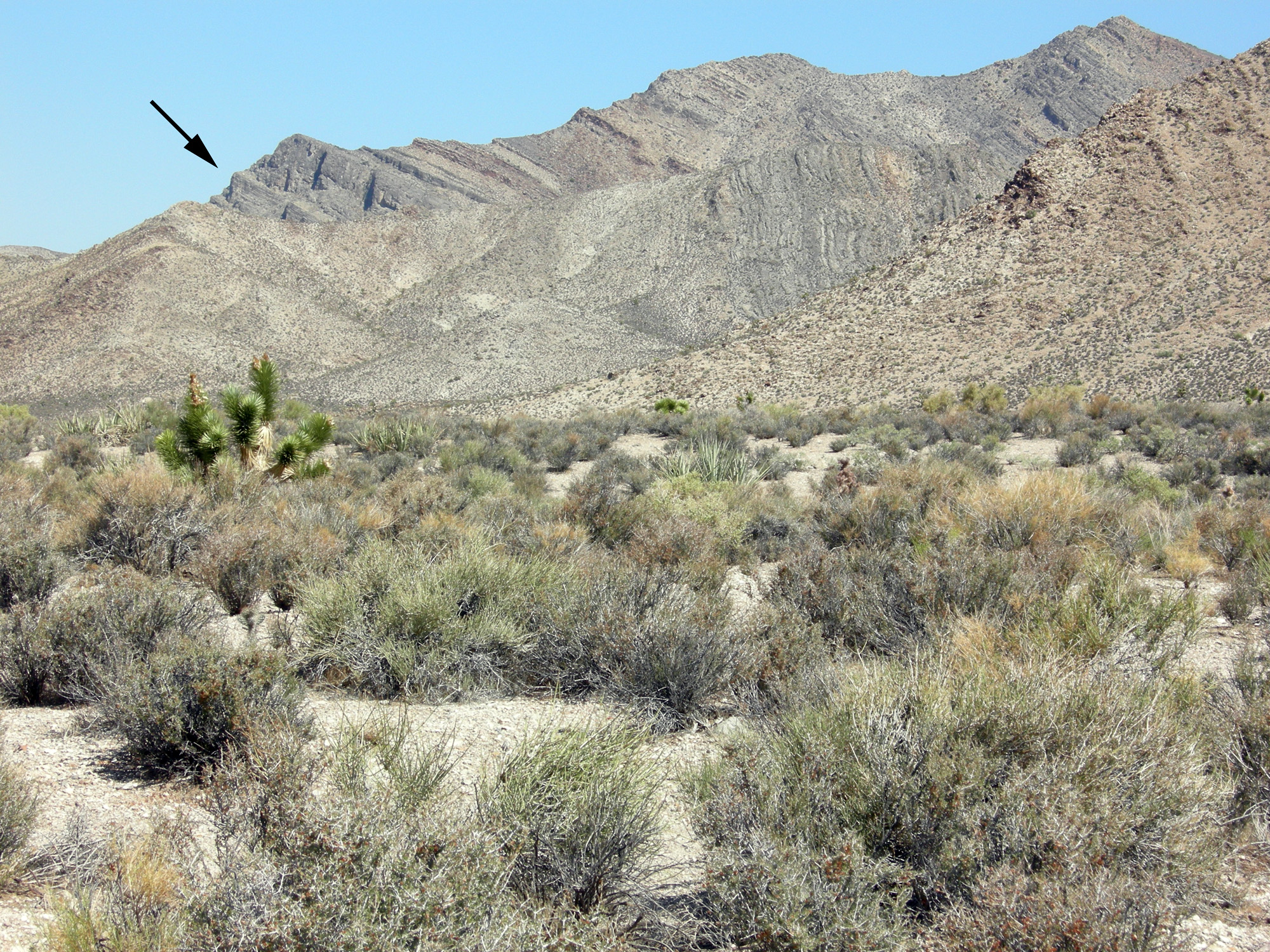 Landscape showing Alamo impact breccia (Late Devonian, Frasnian) near Hancock Summit, Pahranagat Range, Nevada.